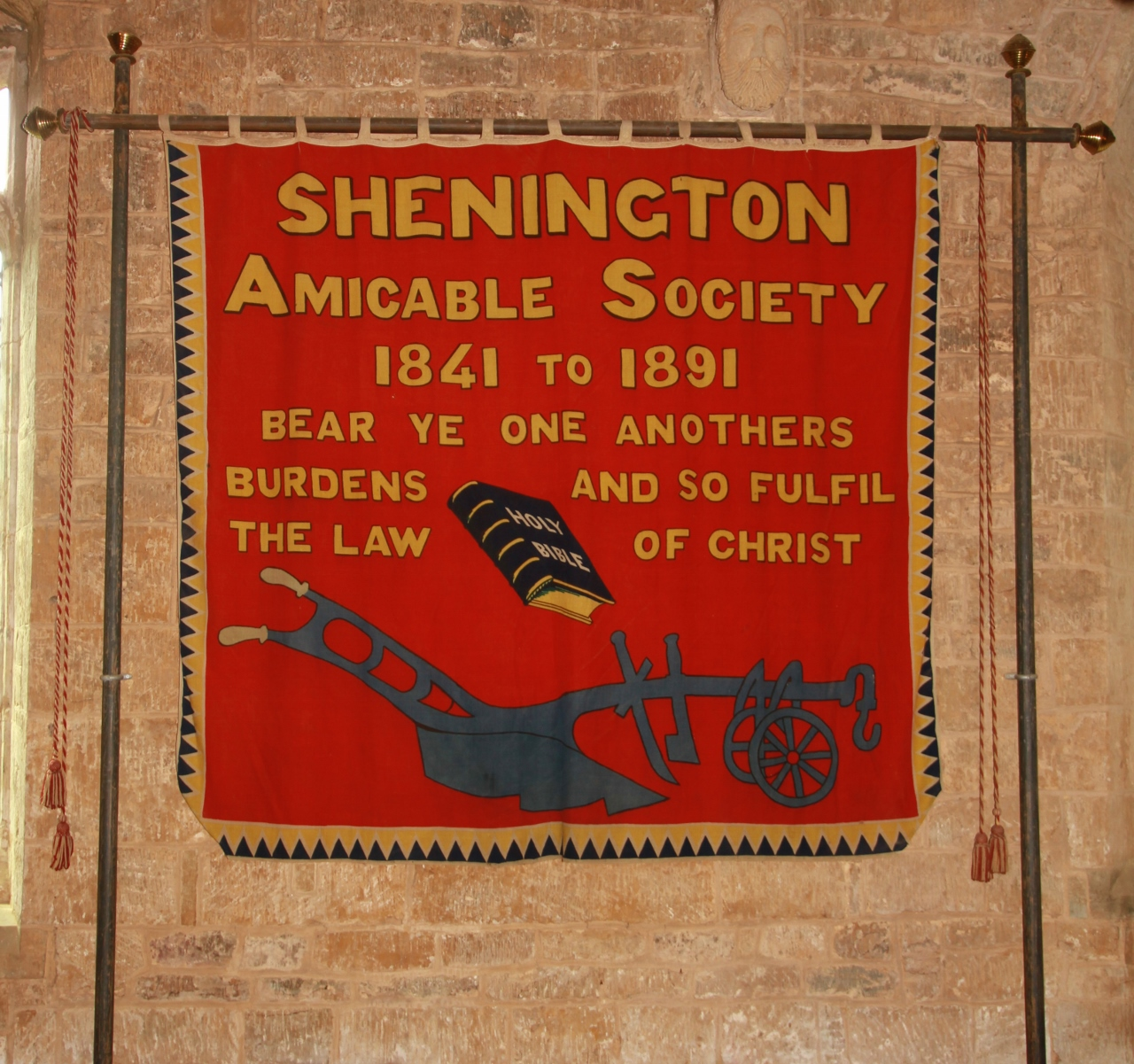 Amicable Society banner in the south aisle of Holy Trinity parish church, Shenington, Oxfordshire